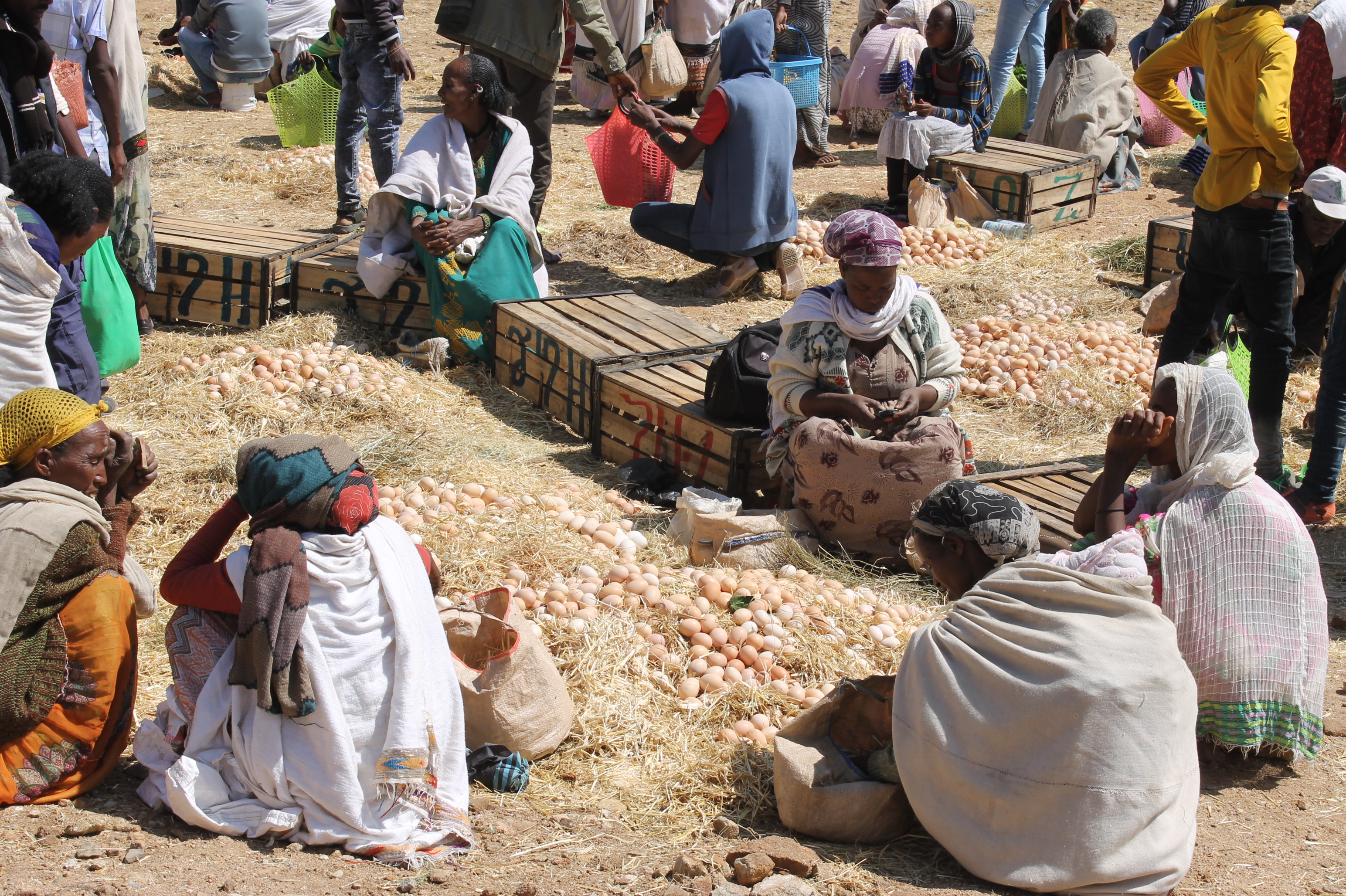 Women selling eggs at the weekly market of Hawzien (Gheralta, Tigrai)